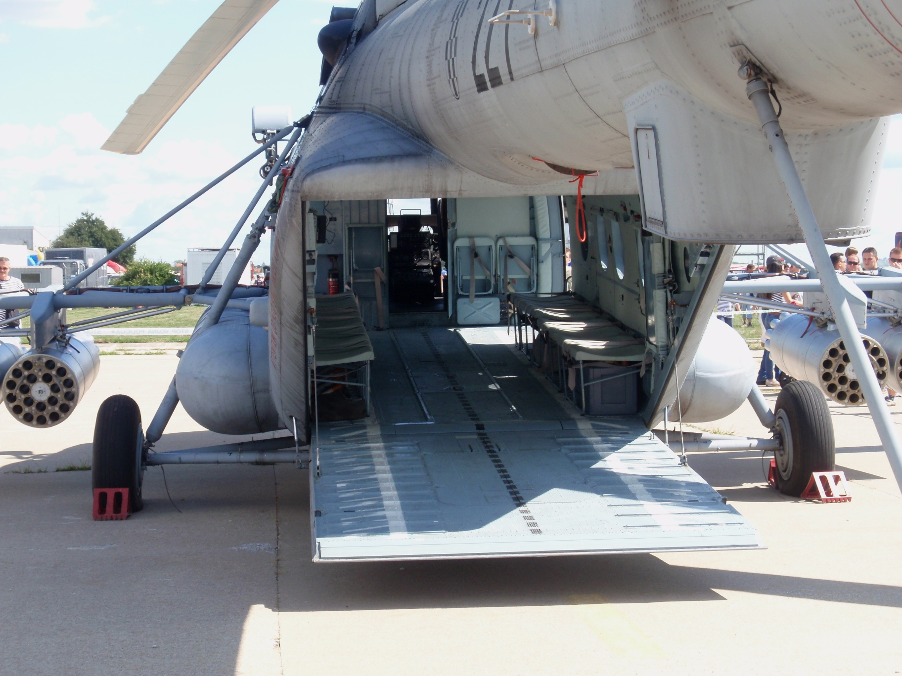 Croatian Air Force Mil Mi-171Sh with open ramp